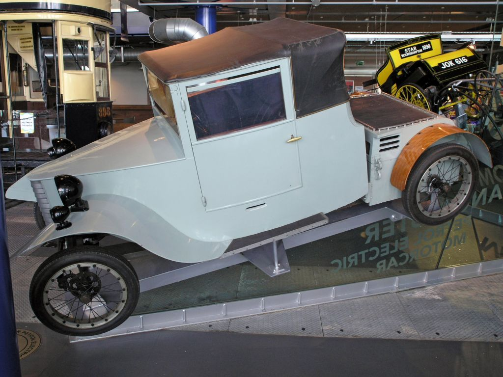 Editing Undertaken:Auto Levels, Shadows/Highlights